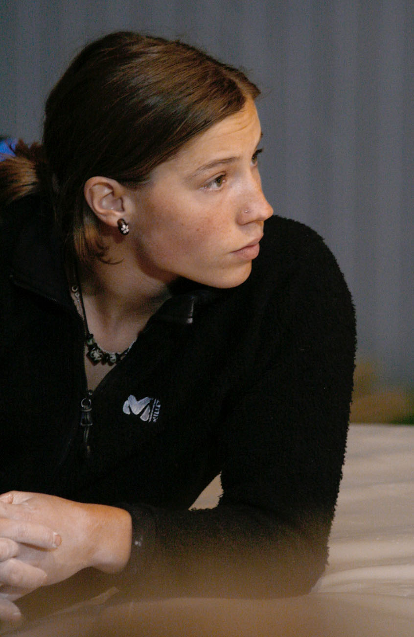 Chloé Graftiaux during the finals at the IFSC Boulder Worldcup Vienna 2010.